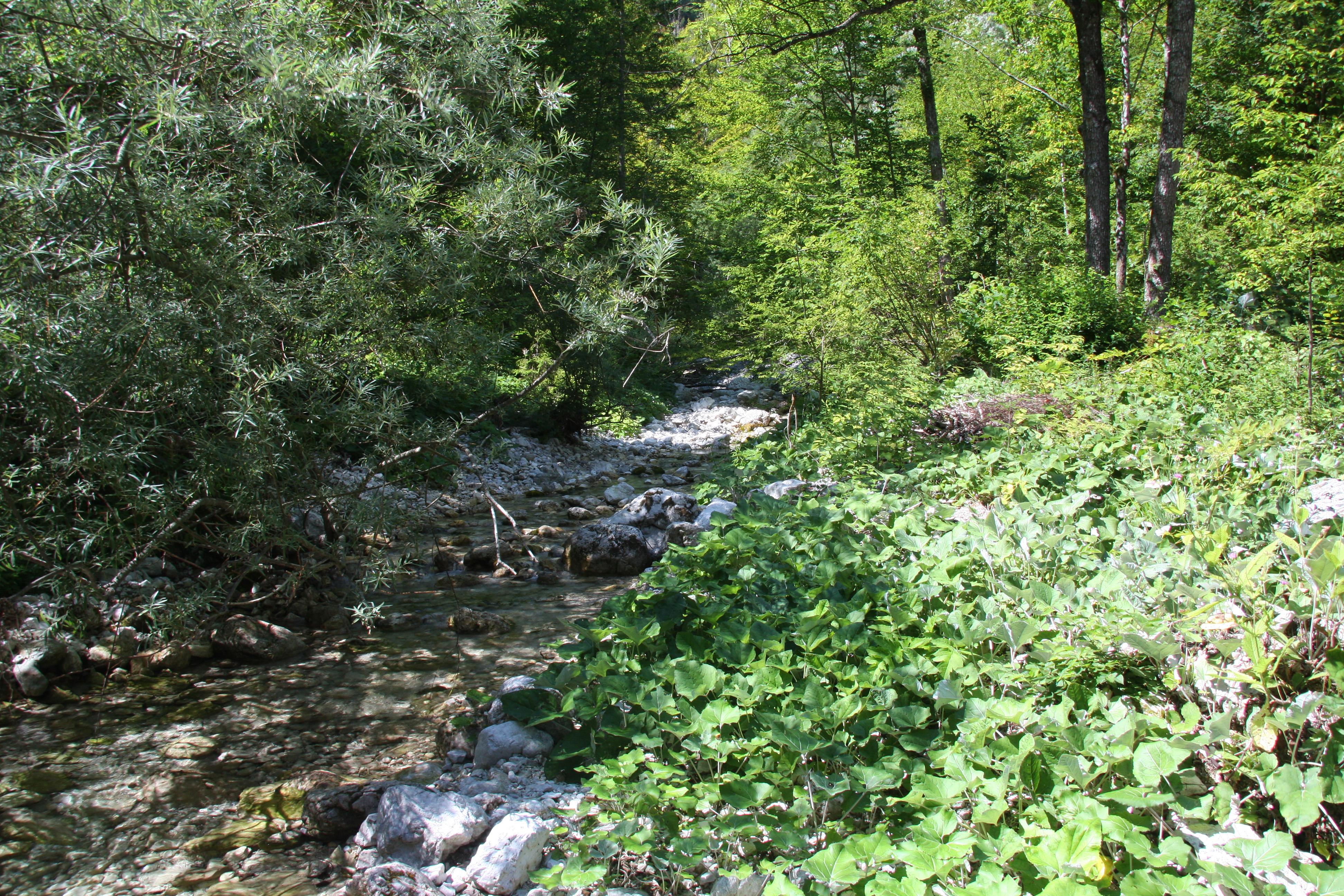 Belca creek, tributary of Idrijca, Slovenia. Photographed just above Putrihove klavže in dry season.